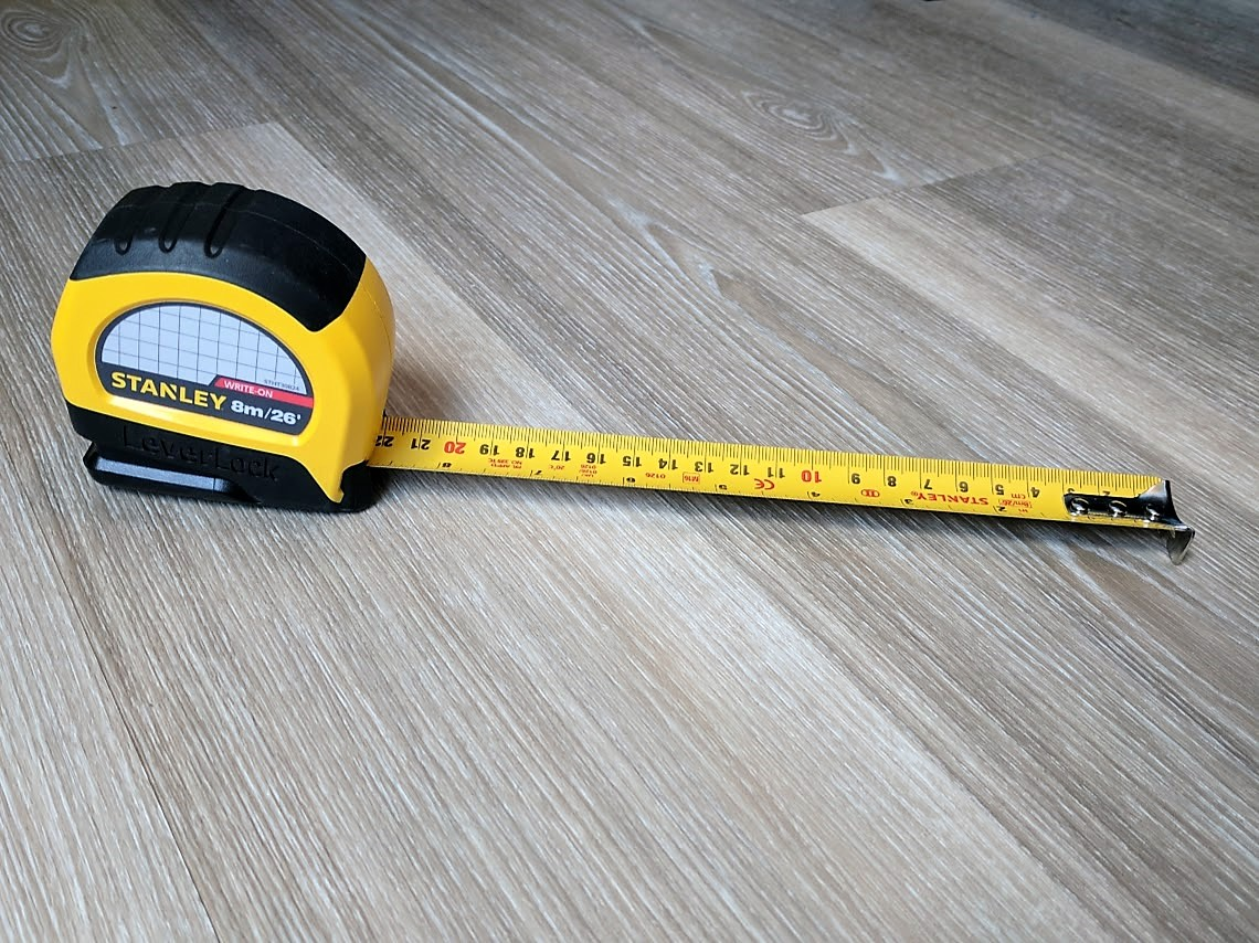 An 8m/26' Stanley LevelLock brand tape measure.